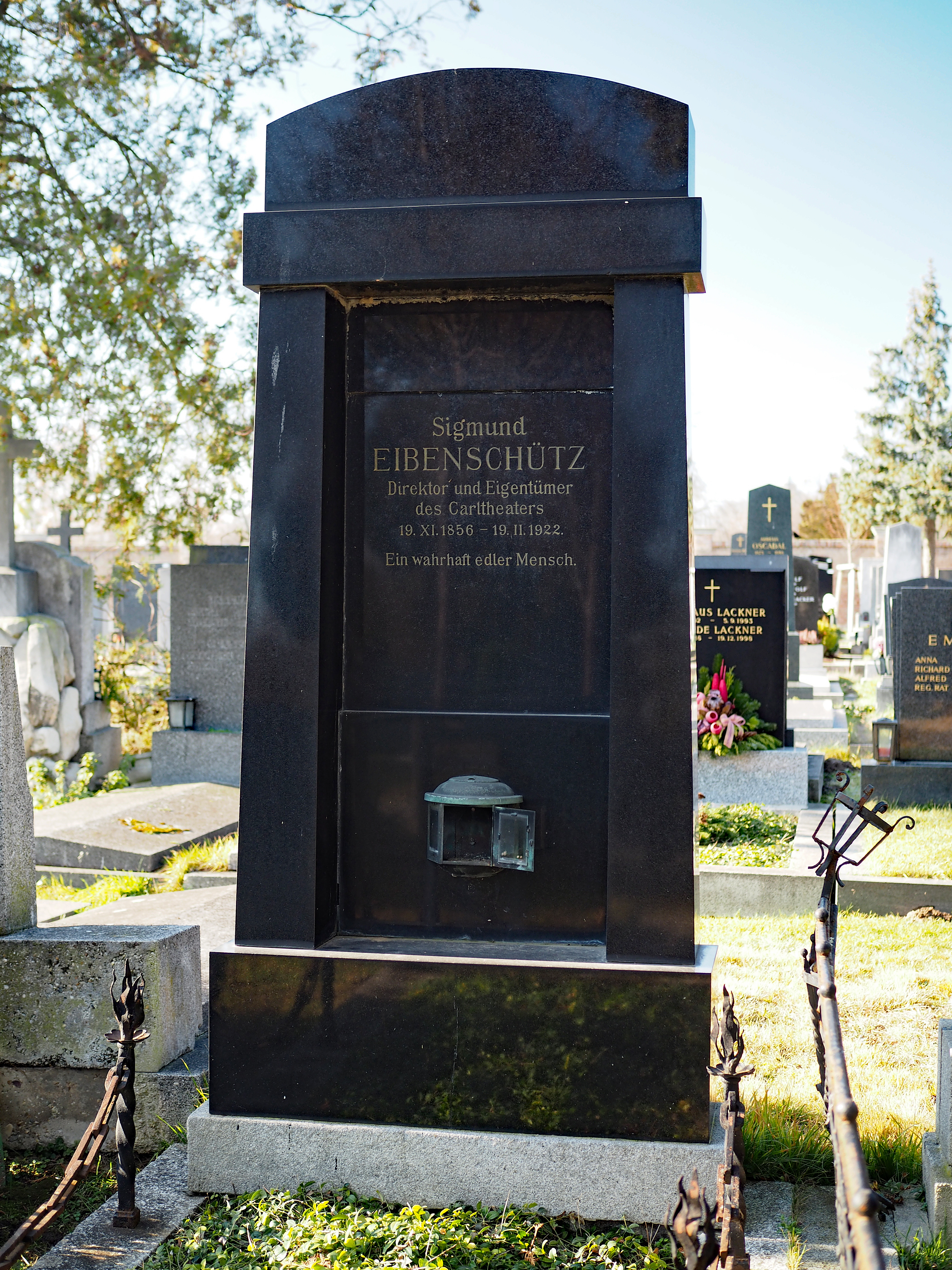 Grave of Sigmund Eibenschütz (1856, Budapest – 1922, Vienna), longtime director and owner of the Carltheater, in the Protestant section of the Vienna Central Cemetery (gate 3, group 8, row AV, number 29)